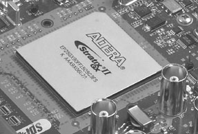 Foto of an IC - FPGA - Altera-StratixIIGX mounted on a PCB